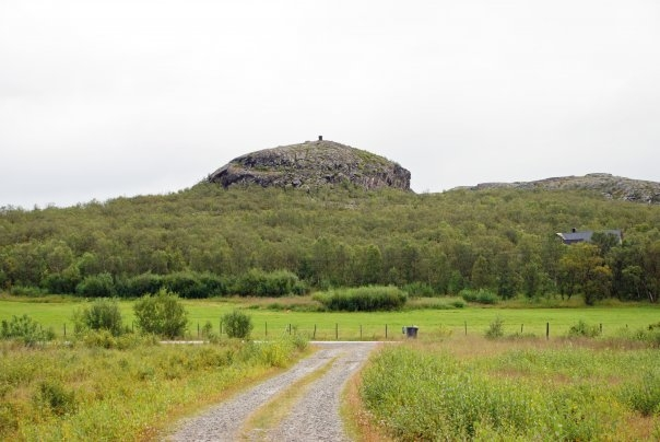 Den sjøsamiske bygda Bevkop.